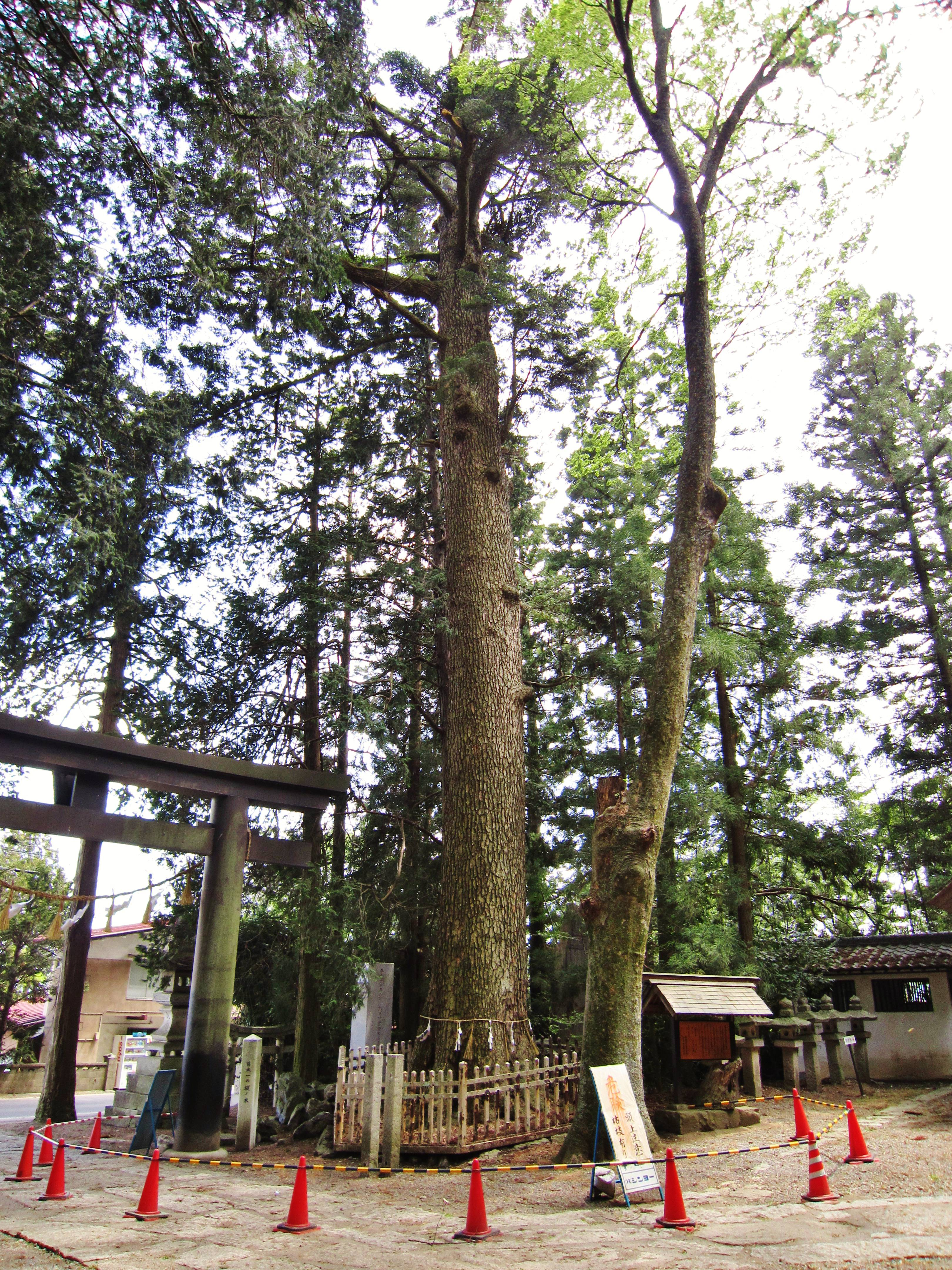 Omiya Atsuta Shrine Abies firma.